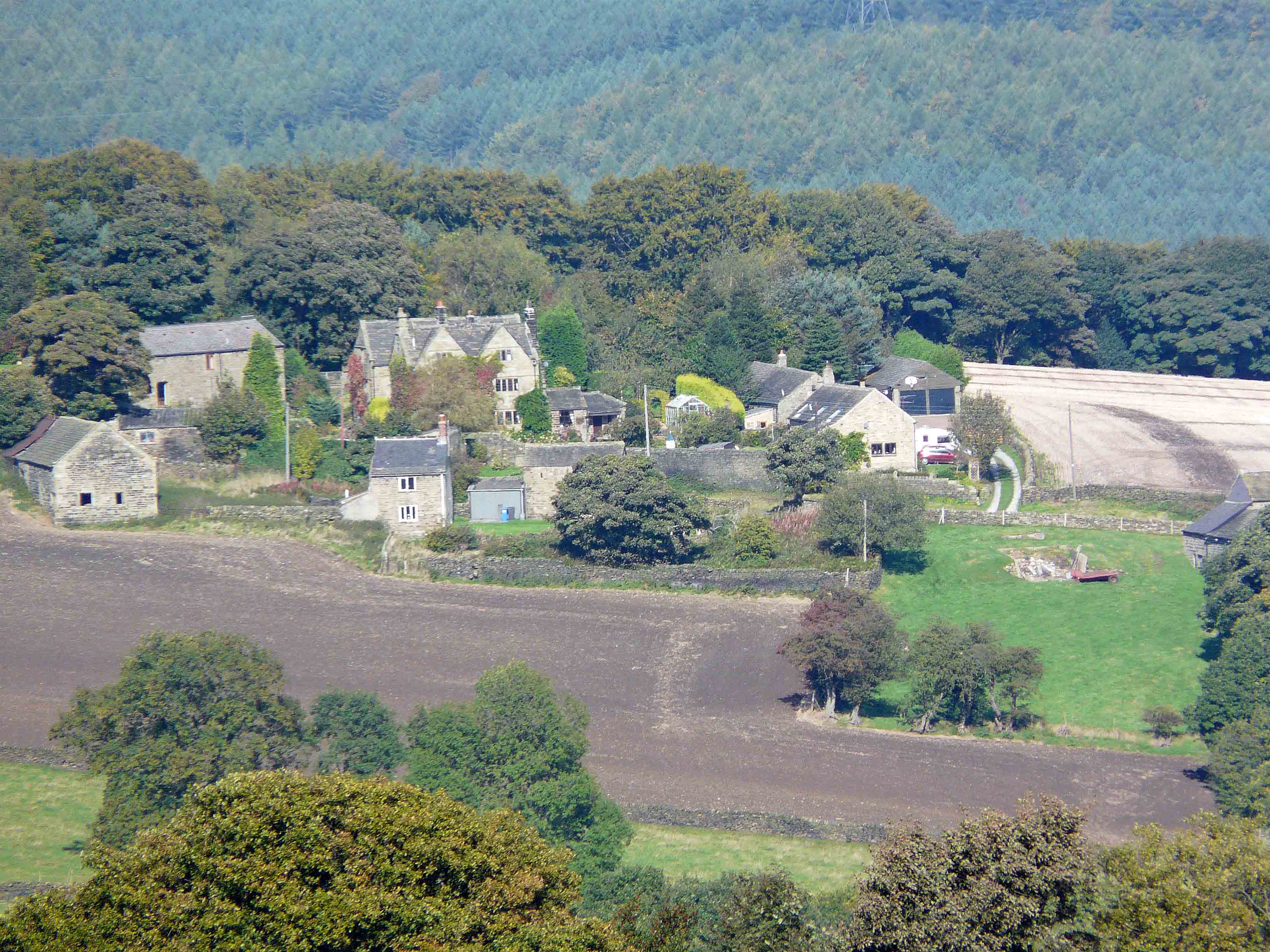 The small hamlet of Onesacre stands one km west of the village of Oughtibridge in South Yorkshire, England.